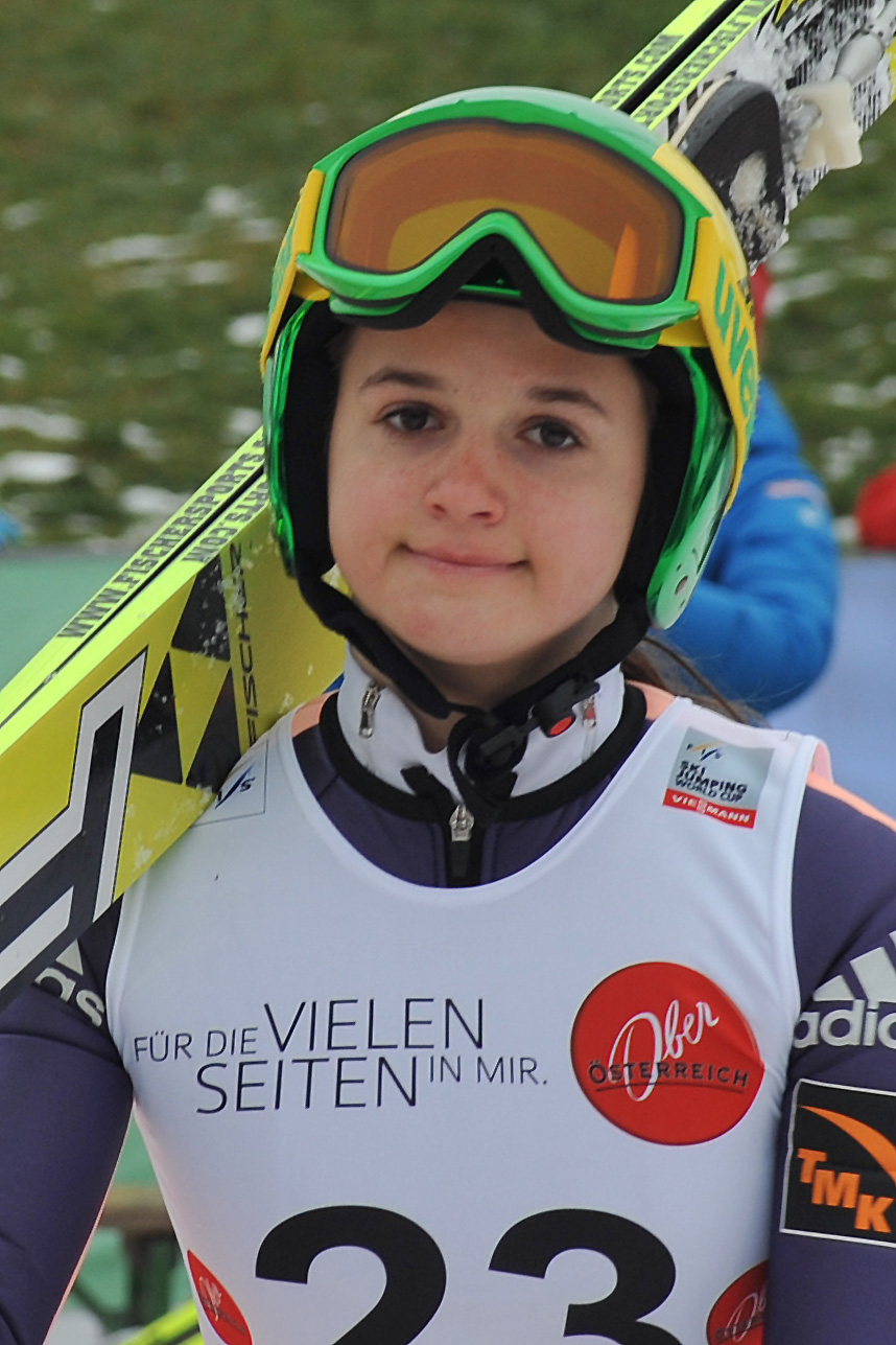 FIS Ski Jumping World Cup Ladies 14th World Cup Competition Normal Hill Individual Hinzenbach (AUT) Sun 2 Feb 2014: Sofya Tikhonova